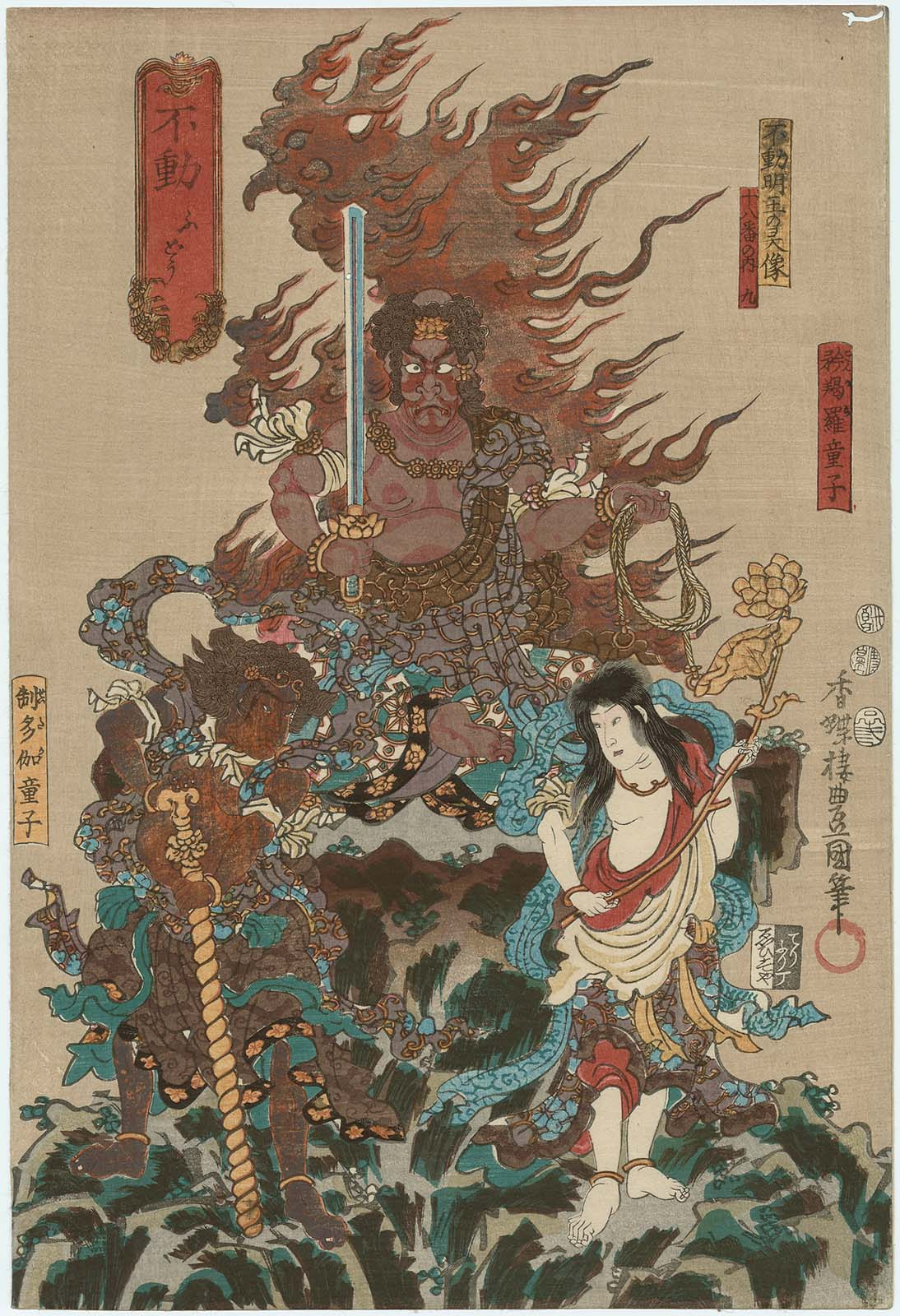 Part of the series The Eighteen Great Kabuki Plays, No. 09